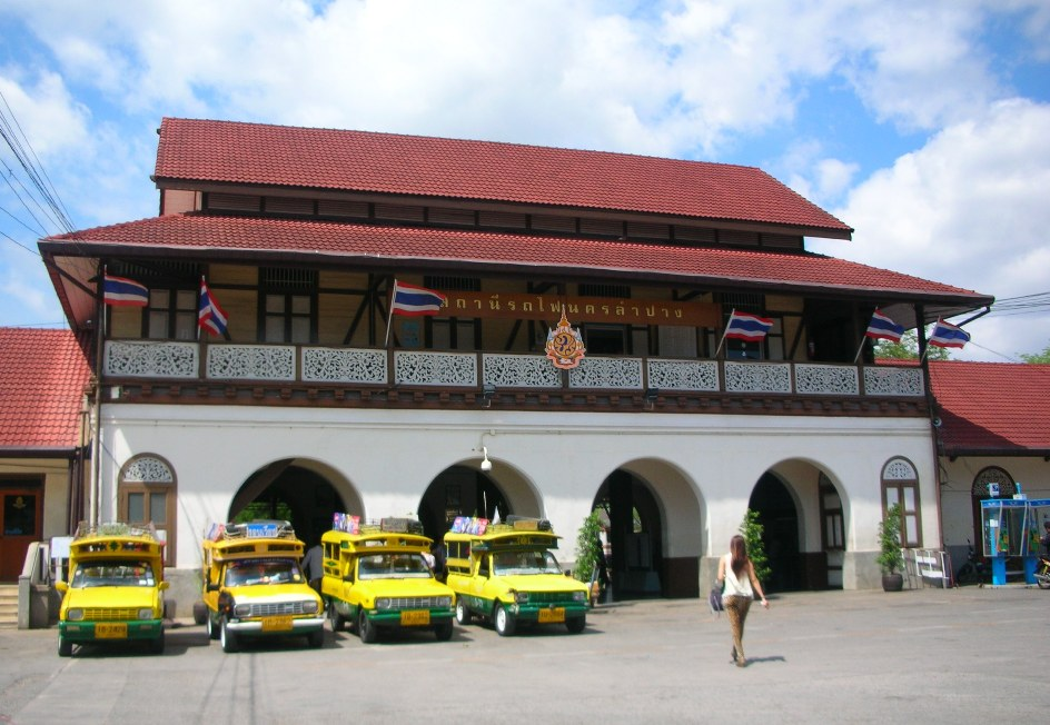 Lampang railway station, Lampang Province, Thailand